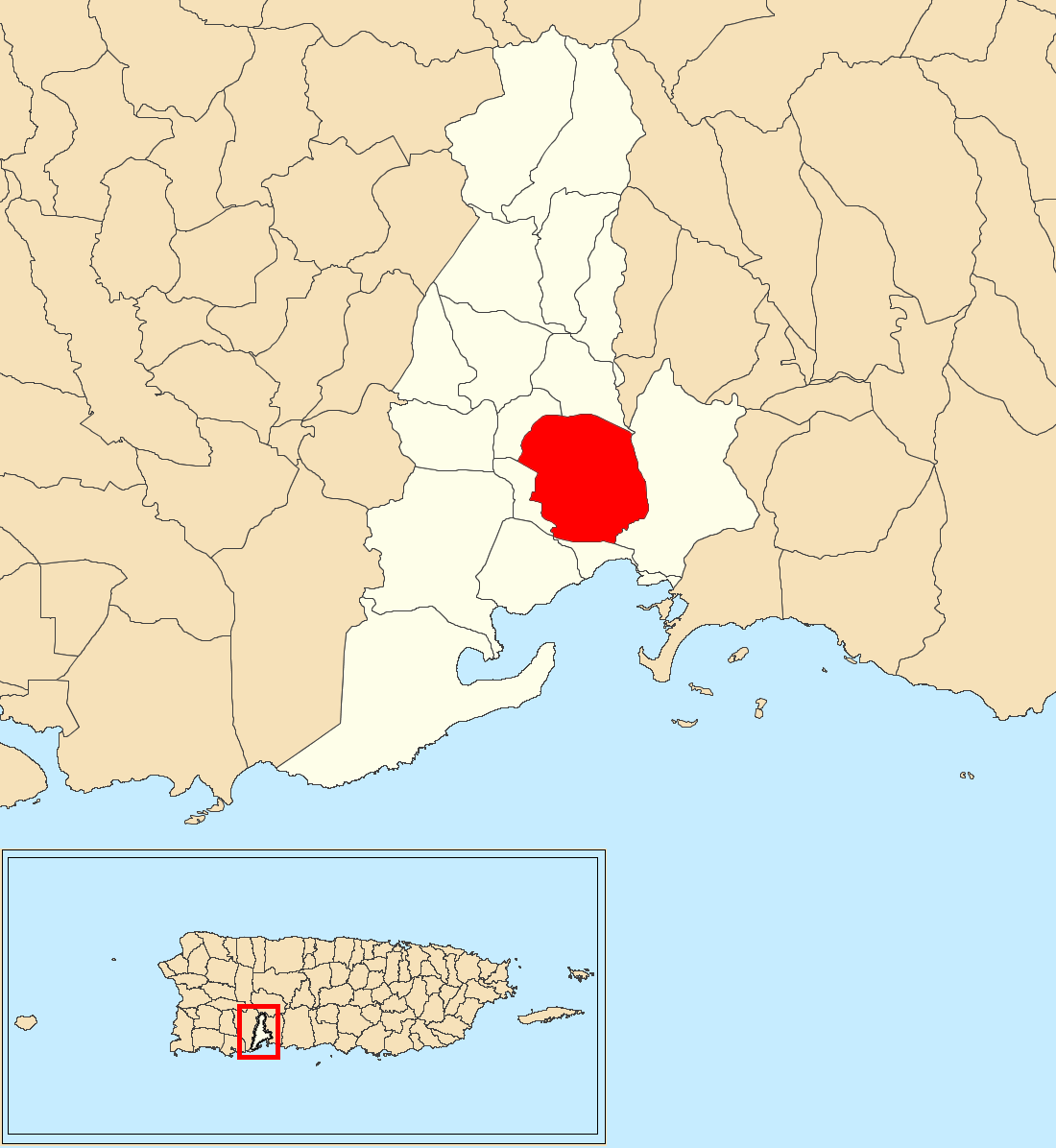 Magas, Guayanilla, Puerto Rico locator map